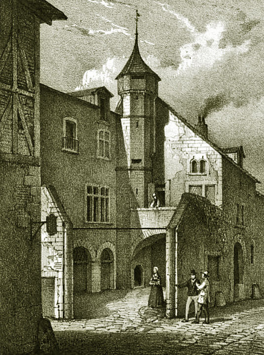 La Tour d'Argent, "Ancien hôtel de la Monnoie de Blois" (the ancien Hotel de la Monnoie of Blois," Lithographie of Ch Pensée, from a drawing made by Louis de la Saussaye (made before 1836, because the lithographie was used in the frontispieces of a book "Revue numismatique" (1836)